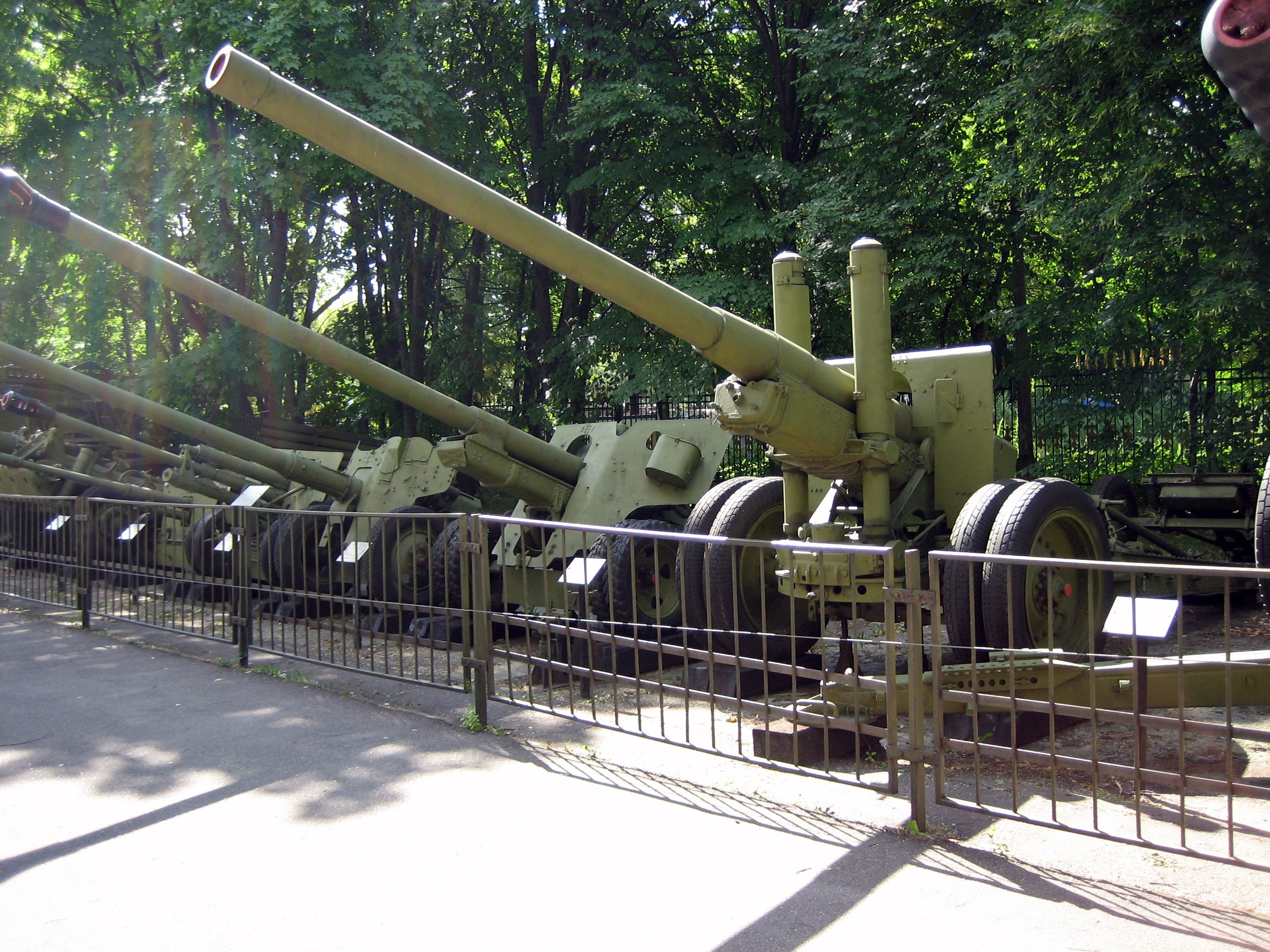 Soviet 122 mm А-19 Mark 1931 gun, displayed in Moscow Military Museum. Photo taken on 19 July, 2007. Source: Photo by me, User:Saiga20K.